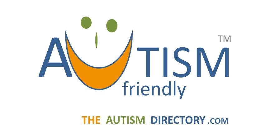 The autism friendly mark for use on the autism directory site